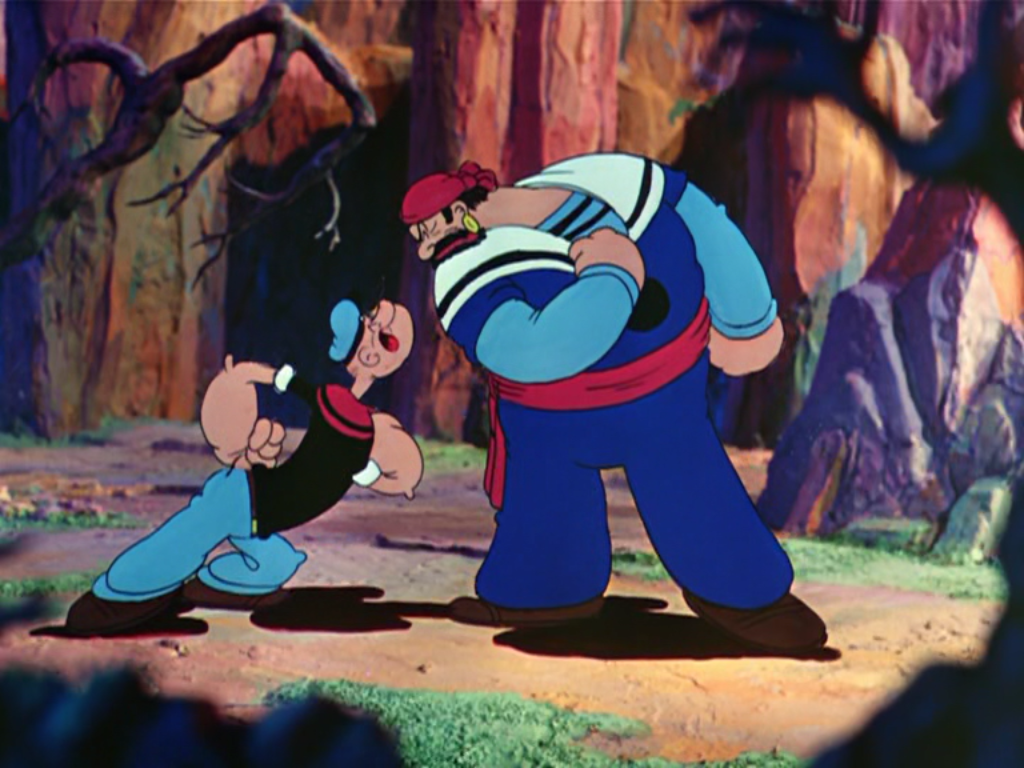 Screenshot from the short Popeye the Sailor Meets Sindbad the Sailor, today in the public domain.